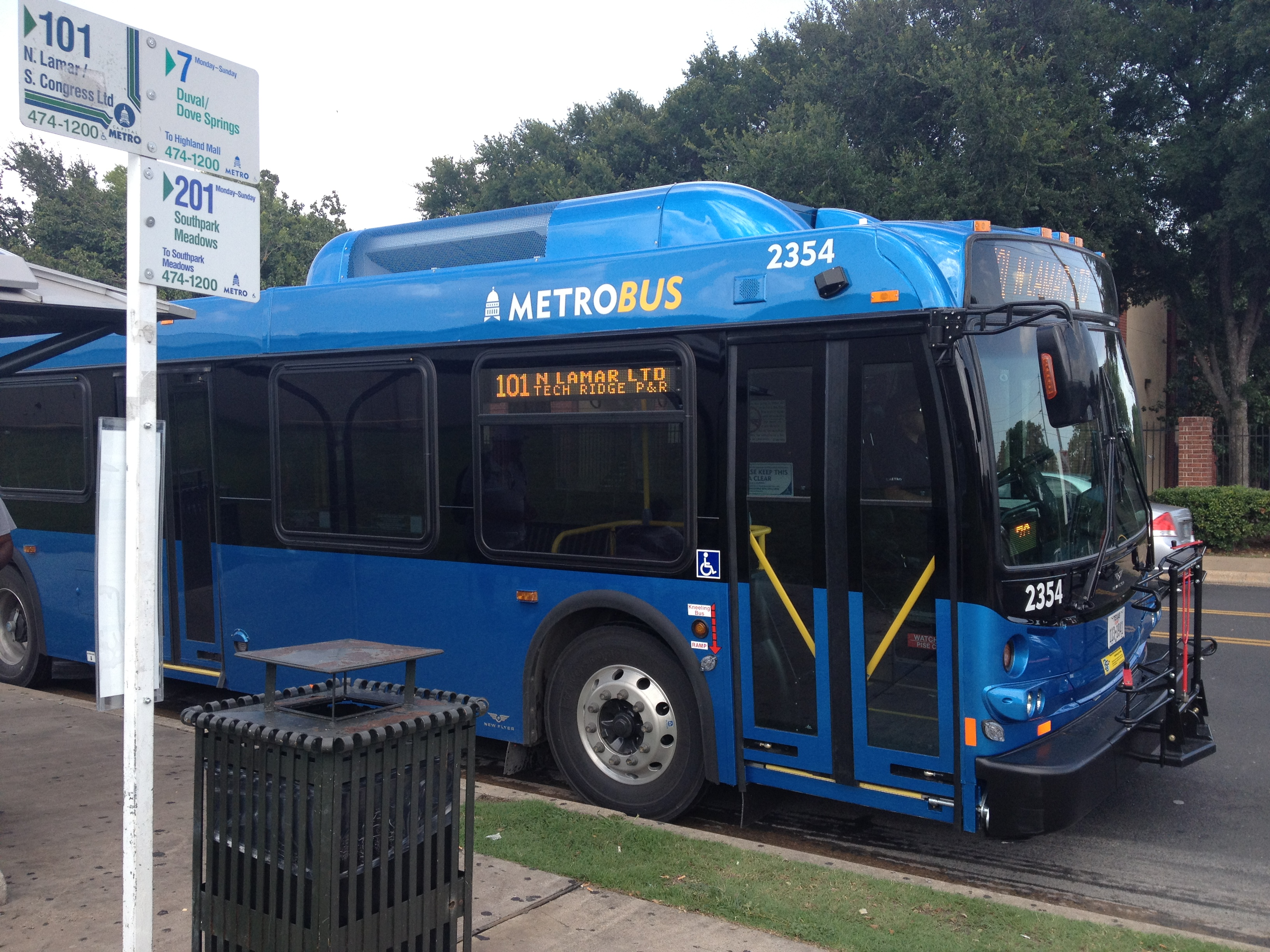 This picture that I have taken is the newer hybrid CapMetro buses.